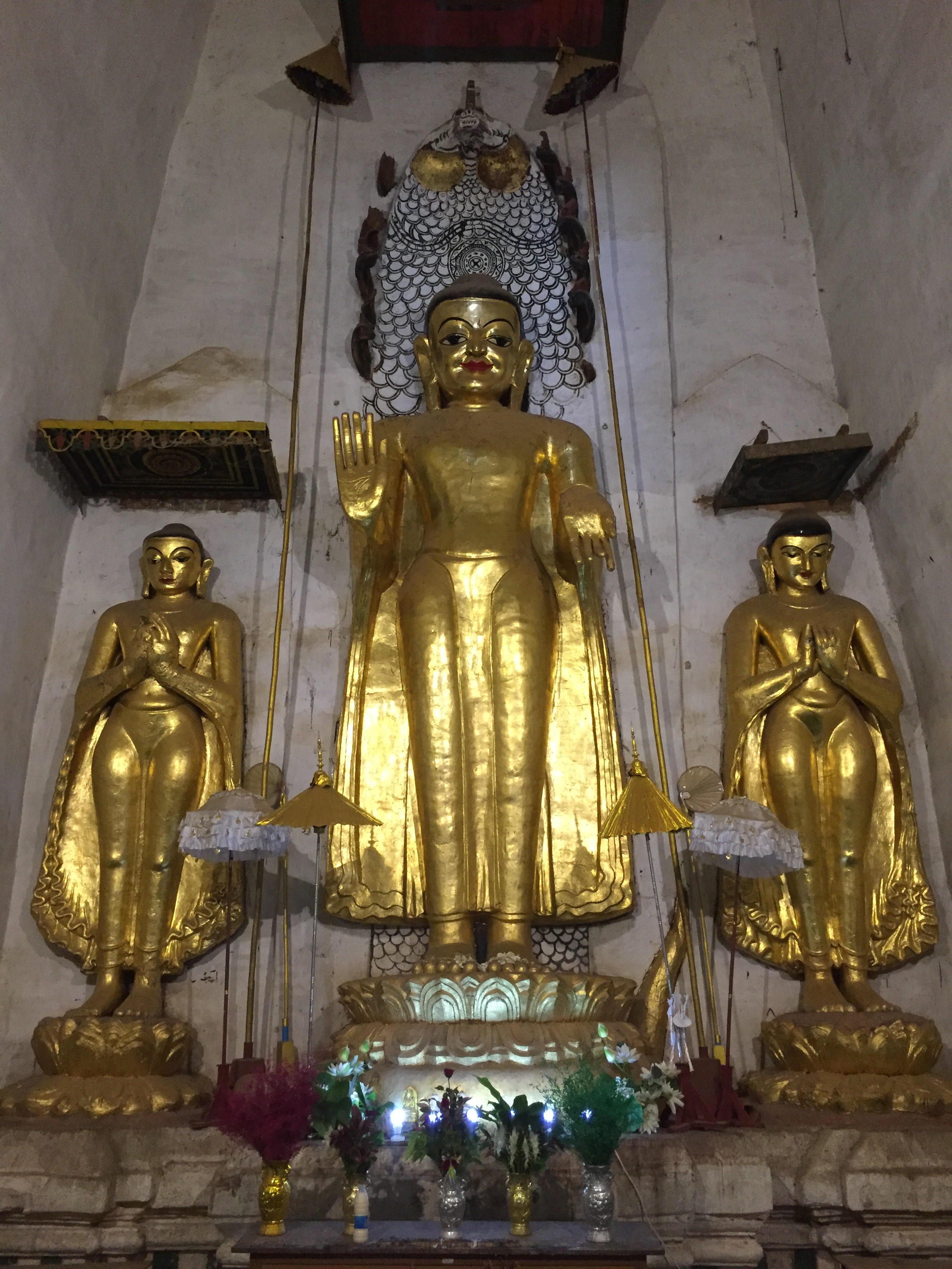 နဂါးရုံဘုရား၊ စေတီပုထိုးအမှတ်မှာ ၁၁၉၂/၅၃၀၊